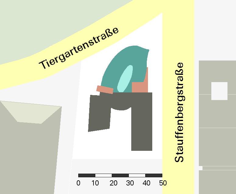 Map of the surroundings of the Austrian embassy in Berlin at the East end of Tiergartenstraße in Berlin-Mitte. To the left (West), the Office of the State of Baden-Württemberg. To the top (North), across the Tiergartenstraße, the Tiergarten park. To the right (East), across the Stauffenbergstraße, the Gemäldegalerie.